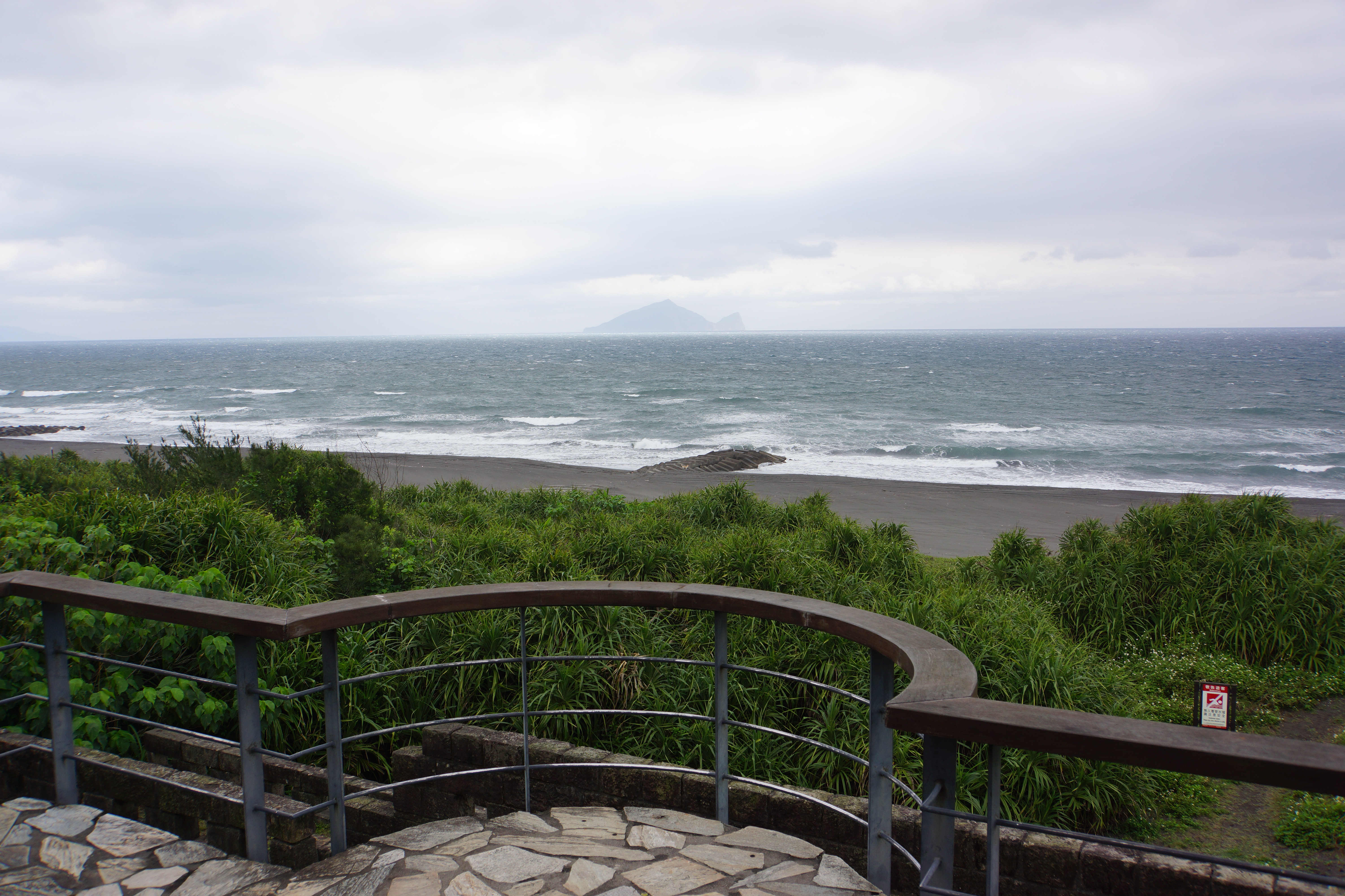 永鎮海濱公園 Yongzhen Waterfront Park